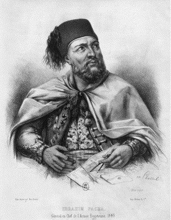 Drawing of Ibrahim Pasha son of Muhammad Ali of Egypt.